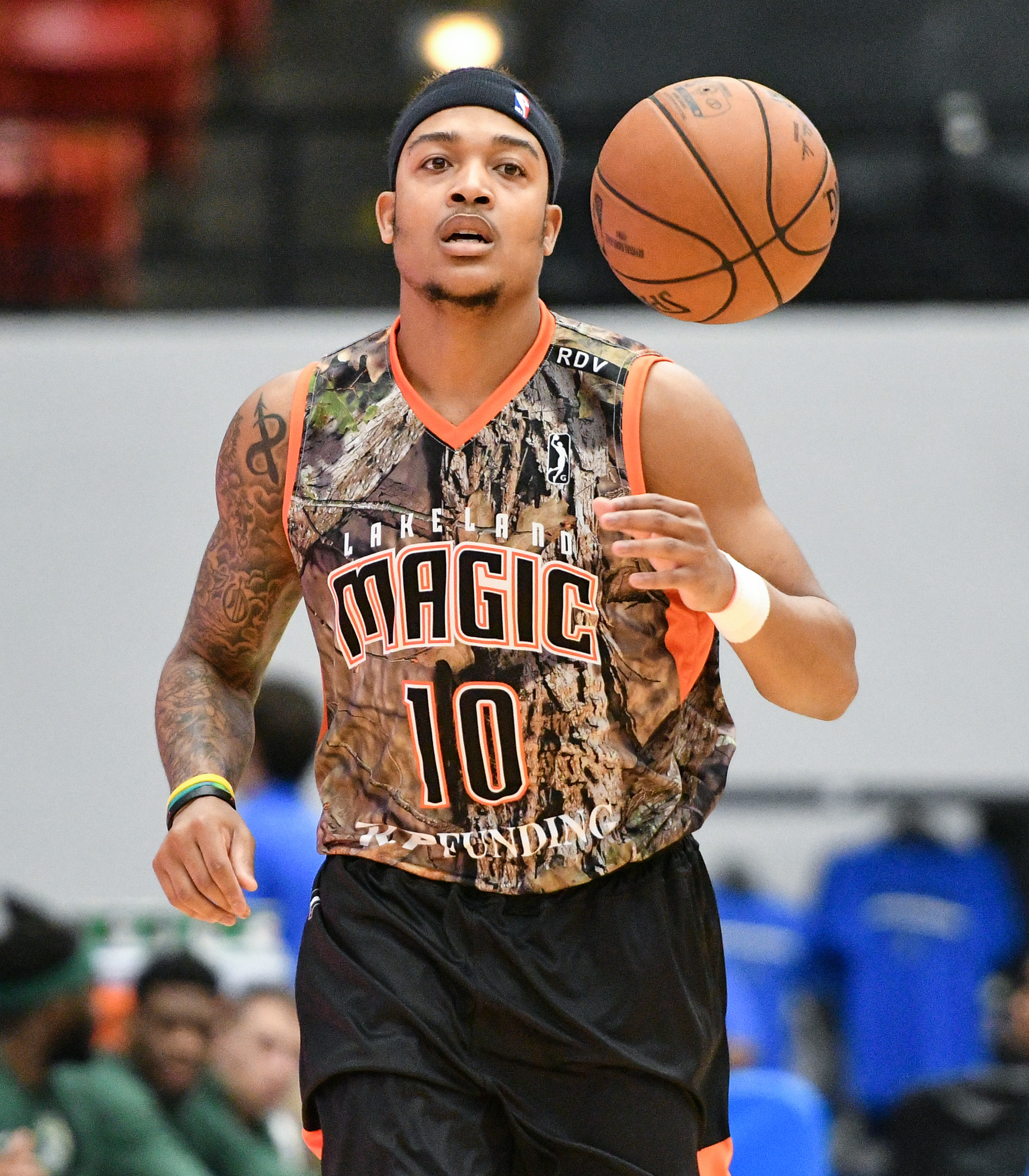 Lakeland Magic v Wisconsin Herd. RP Funding Center. Lakeland, Fla. Jan. 6, 2019. (Photo by Tom Hagerty.)